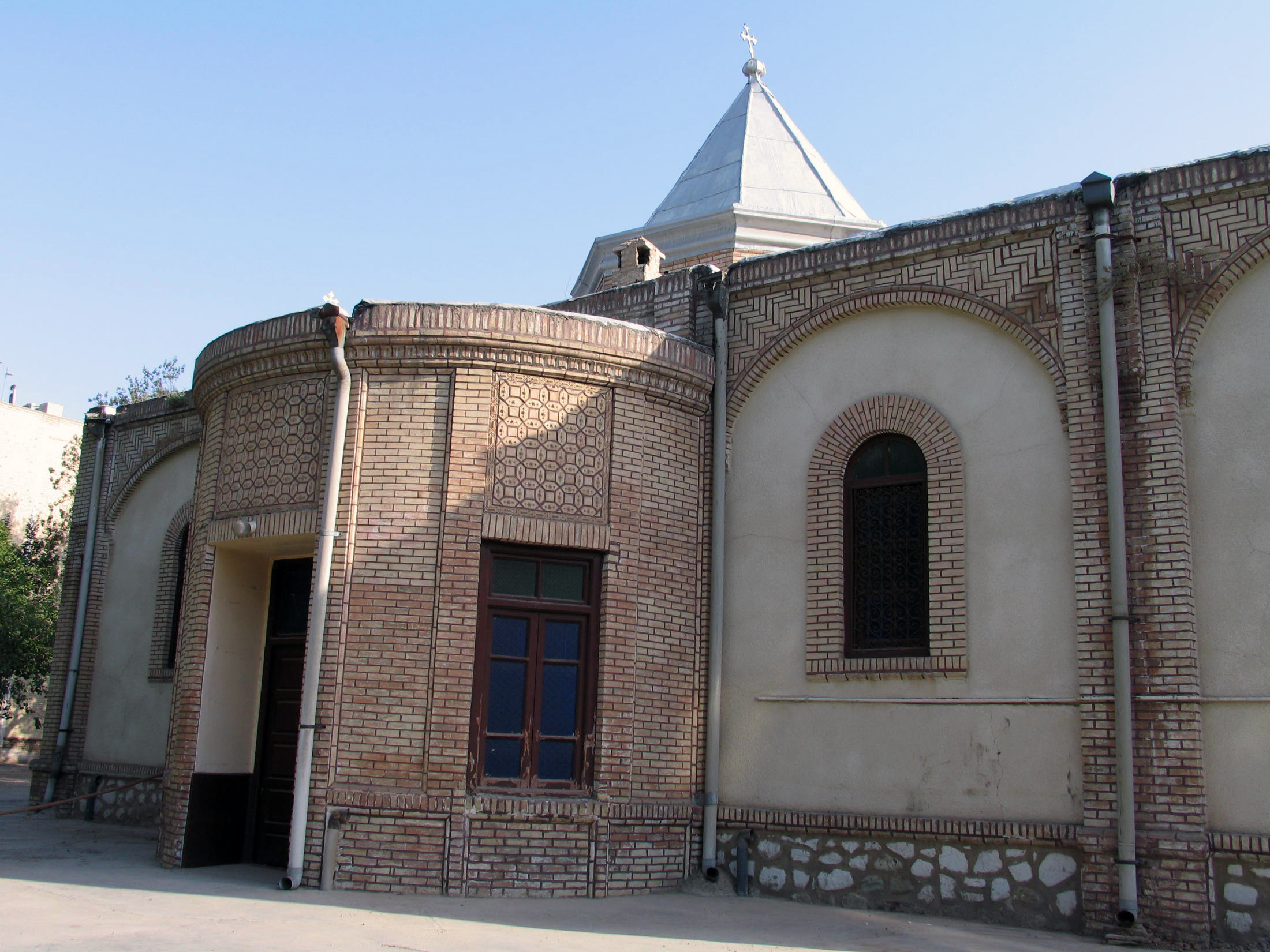 Armenian church in Qazvin